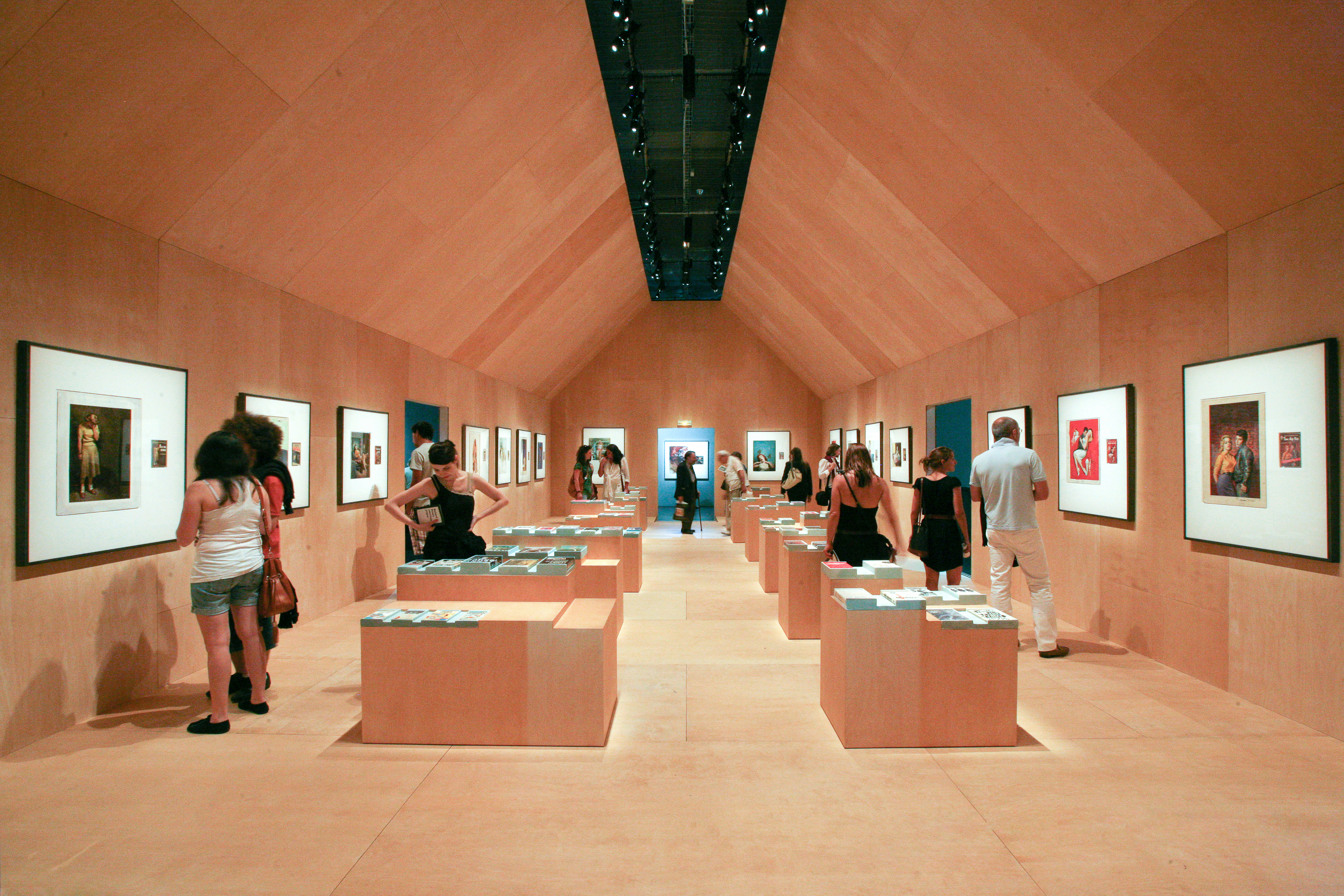 Richard Prince, American Prayer Exhibition from March 29, 2011 to June 26, 2011 at Bibliothèque nationale de France, site François-Mitterrand, Paris, France.